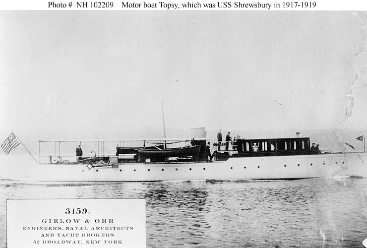 Private motorboat Topsy, which later served as the United States Navy patrol boat USS Shrewsbury (SP-70) from 1917 to 1919.